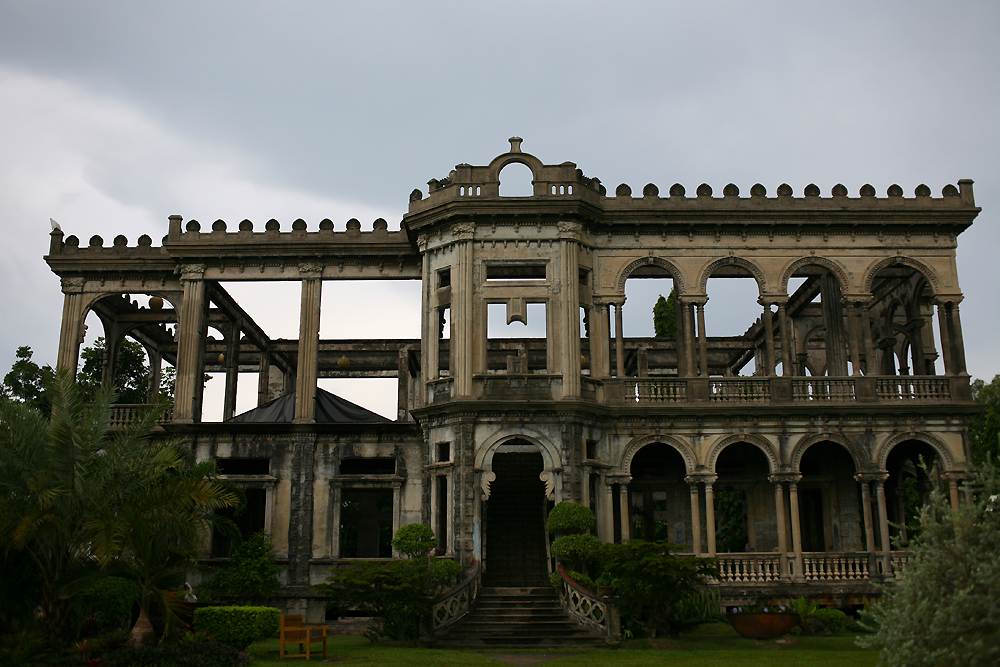 The ruins of the mansion of Don Mariano Ledesma Lacson, Bacolod, Philippines.